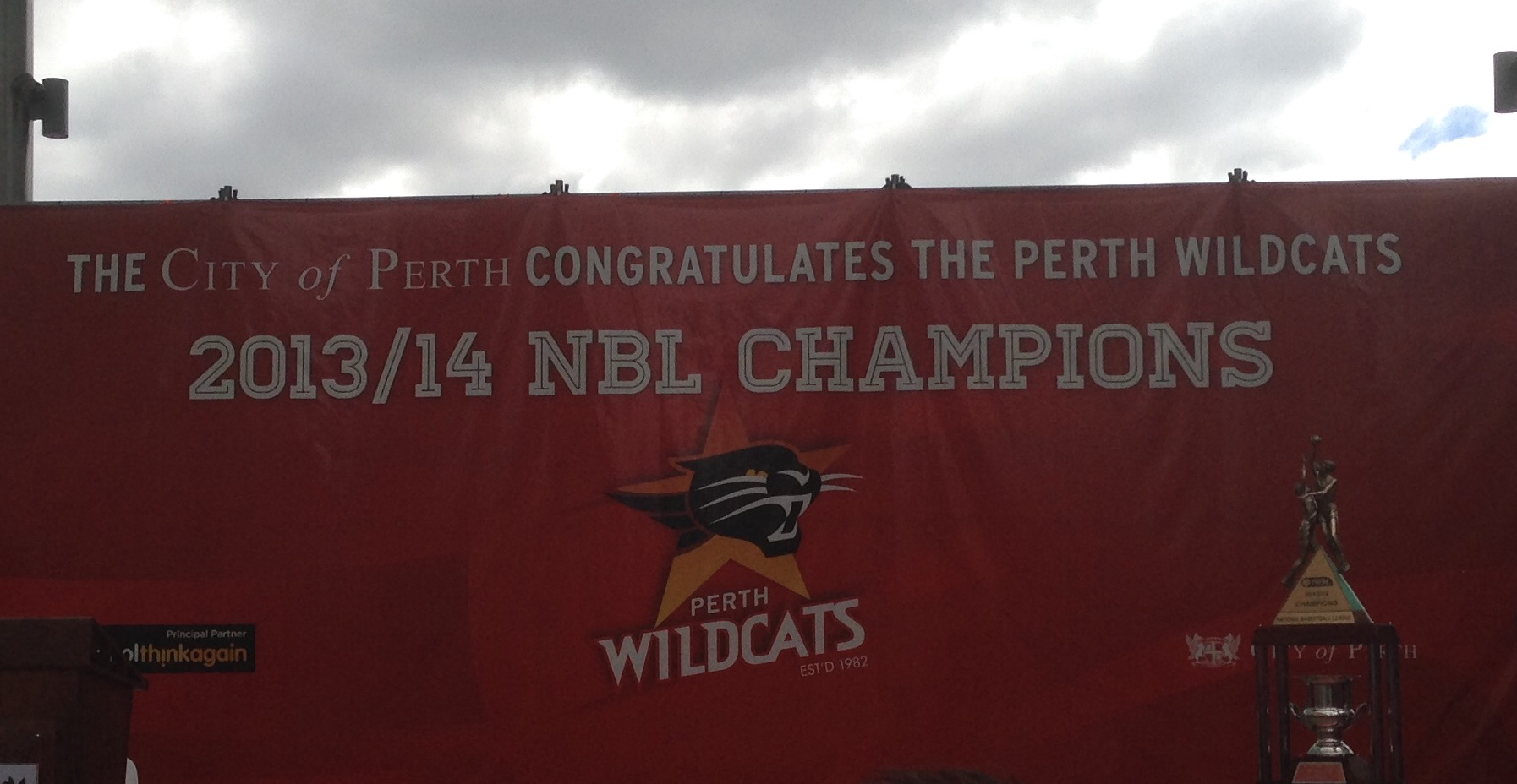 The Perth Wildcats' 2014 NBL Championship celebration in the City of Perth